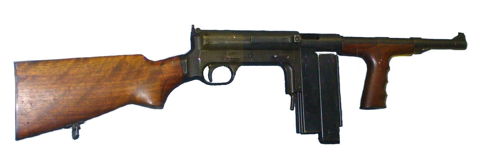 United Defence M42, American submachine gun